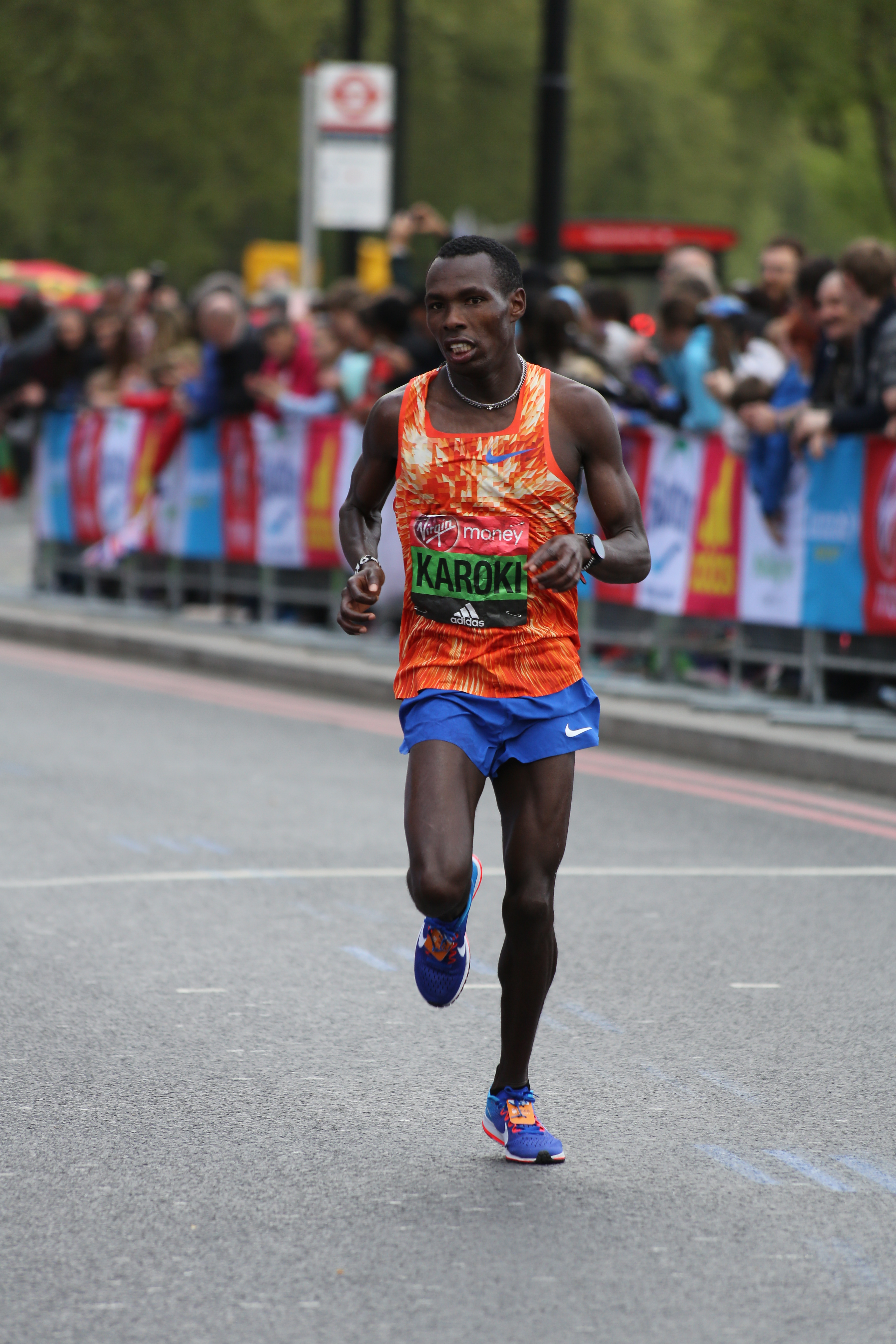 2017 London Marathon – Bedan Karoki